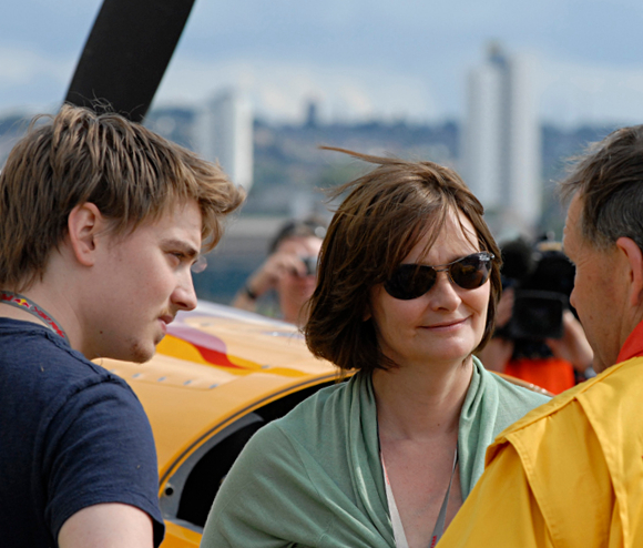 Cherie and Euan Blair with Nigel Lamb in a yellow jacket at the Red Bull Air Race 2007 in London on 28 July 2007.